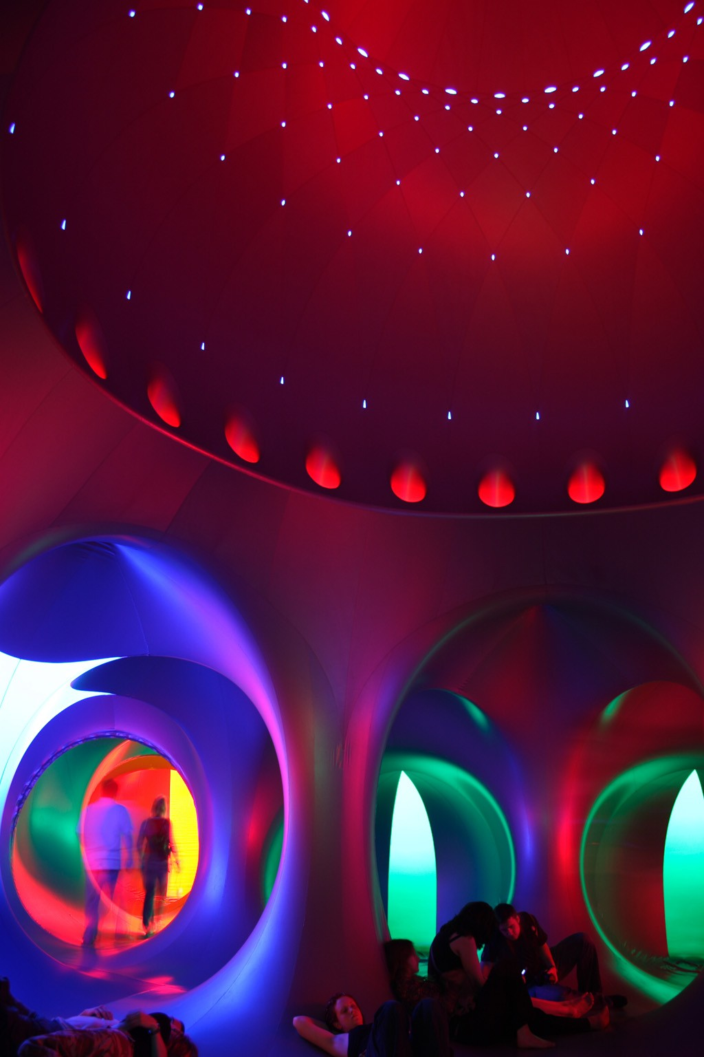 Architects of Air - Levity II centre dome